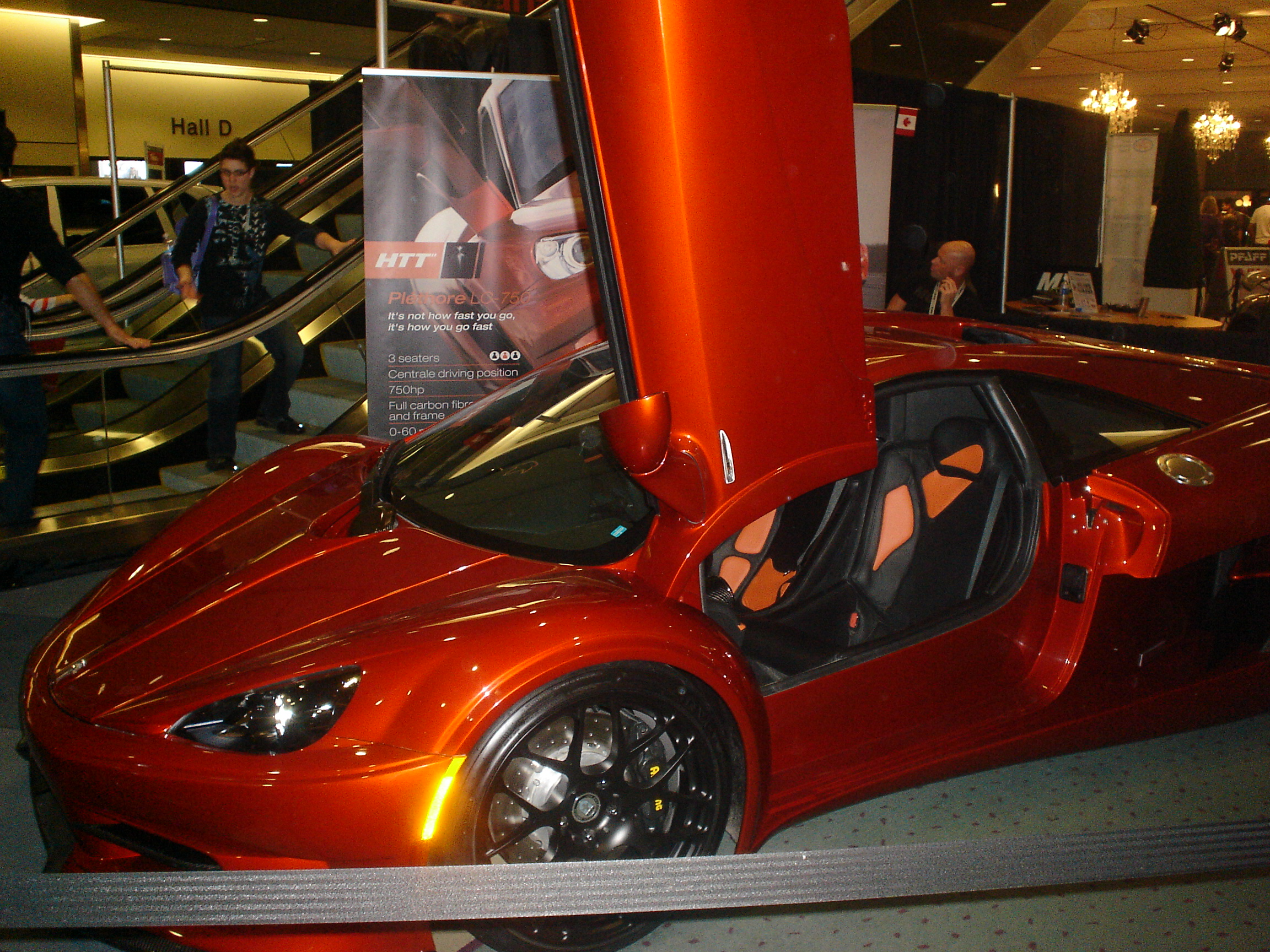 View of the production HTT Pléthore shown at the 2010 Canadian International Autoshow in Toronto in Feb. 2010.